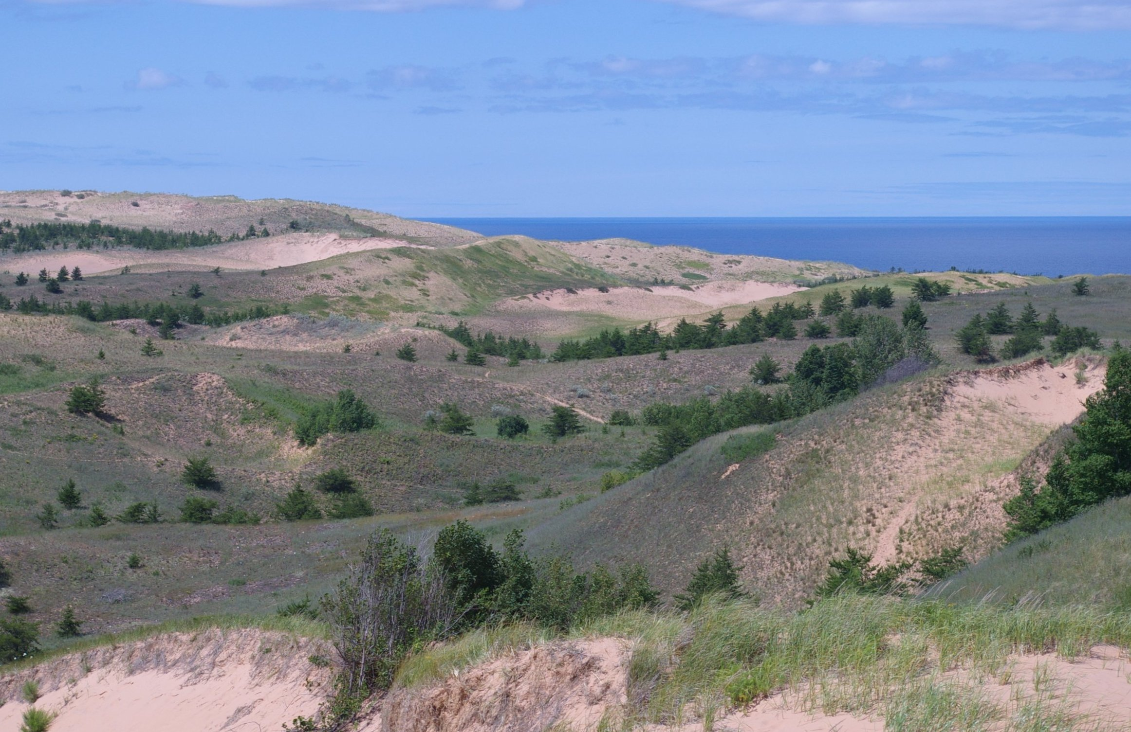 Grand Sable dunes looking towards Lake Superior near Grand Sable Lake.